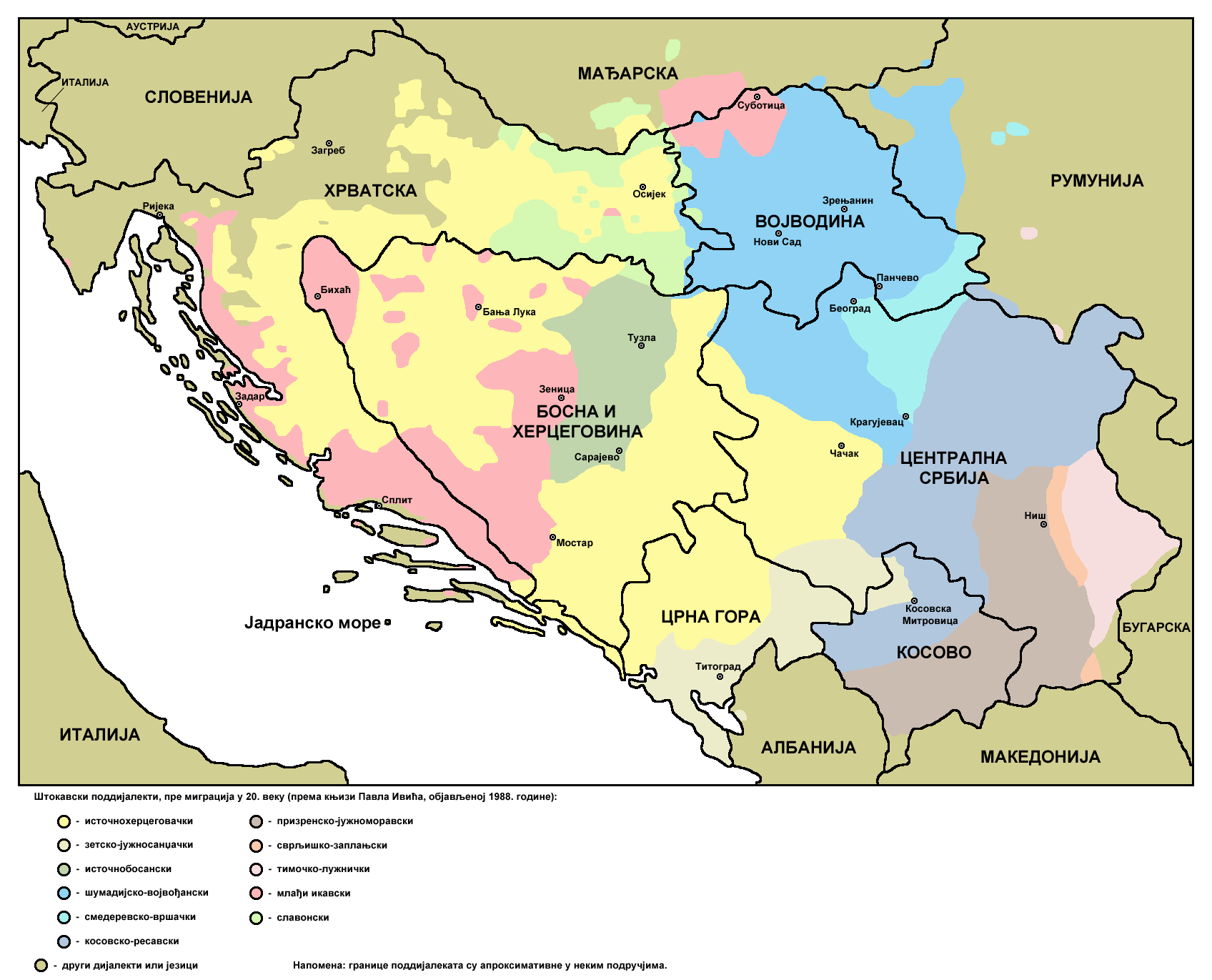 Shtokavian subdialects, before 20th century migrations (according to the book of Pavle Ivić, published in 1988).